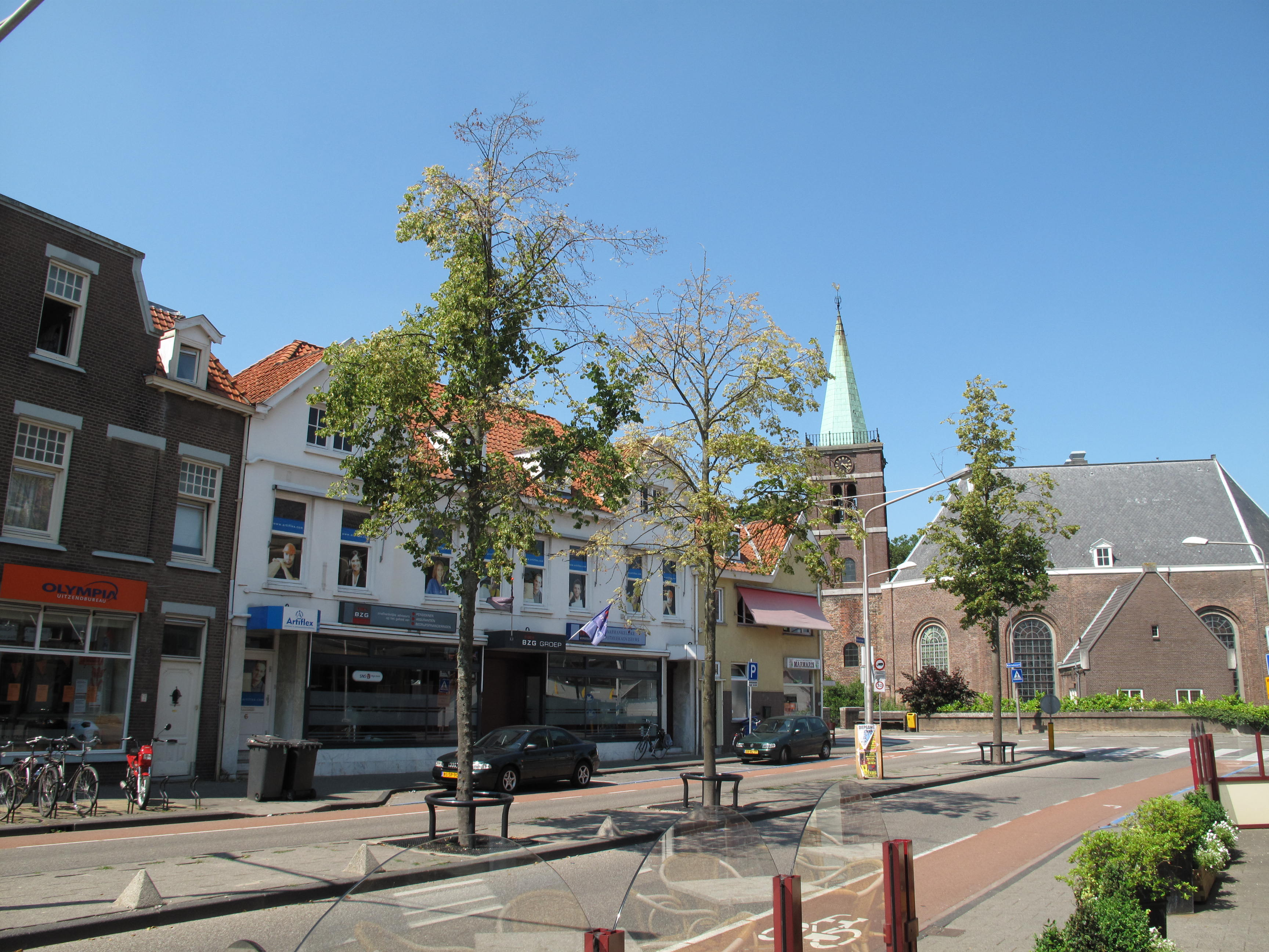 Sliedrecht, shopping street and church in trhe background